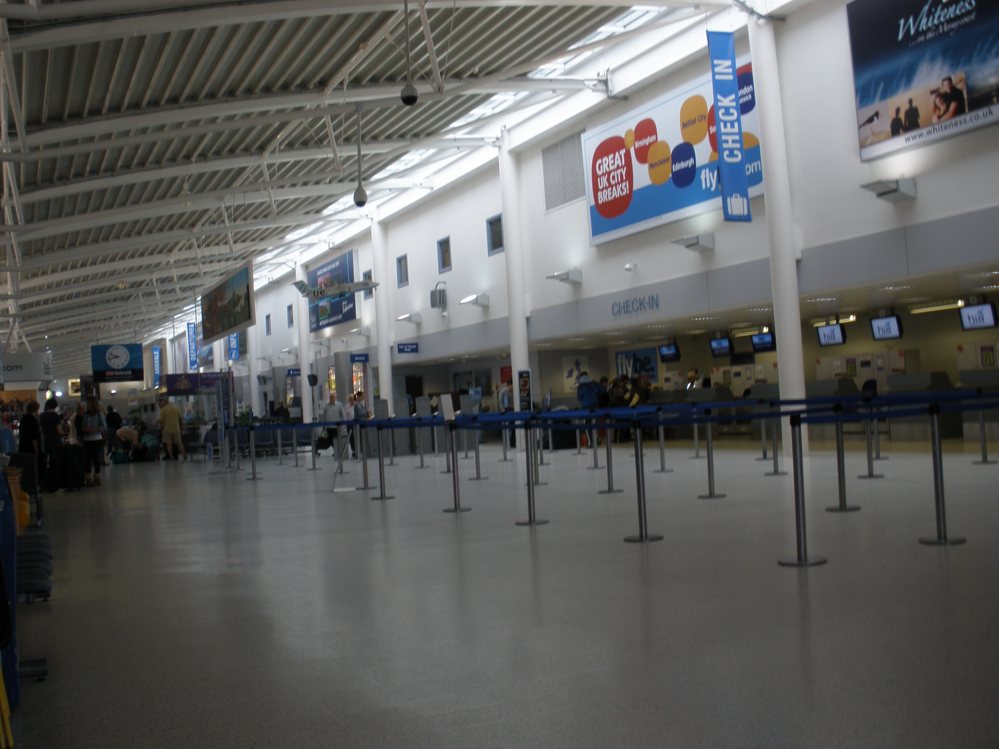 The concourse at Inverness Airport